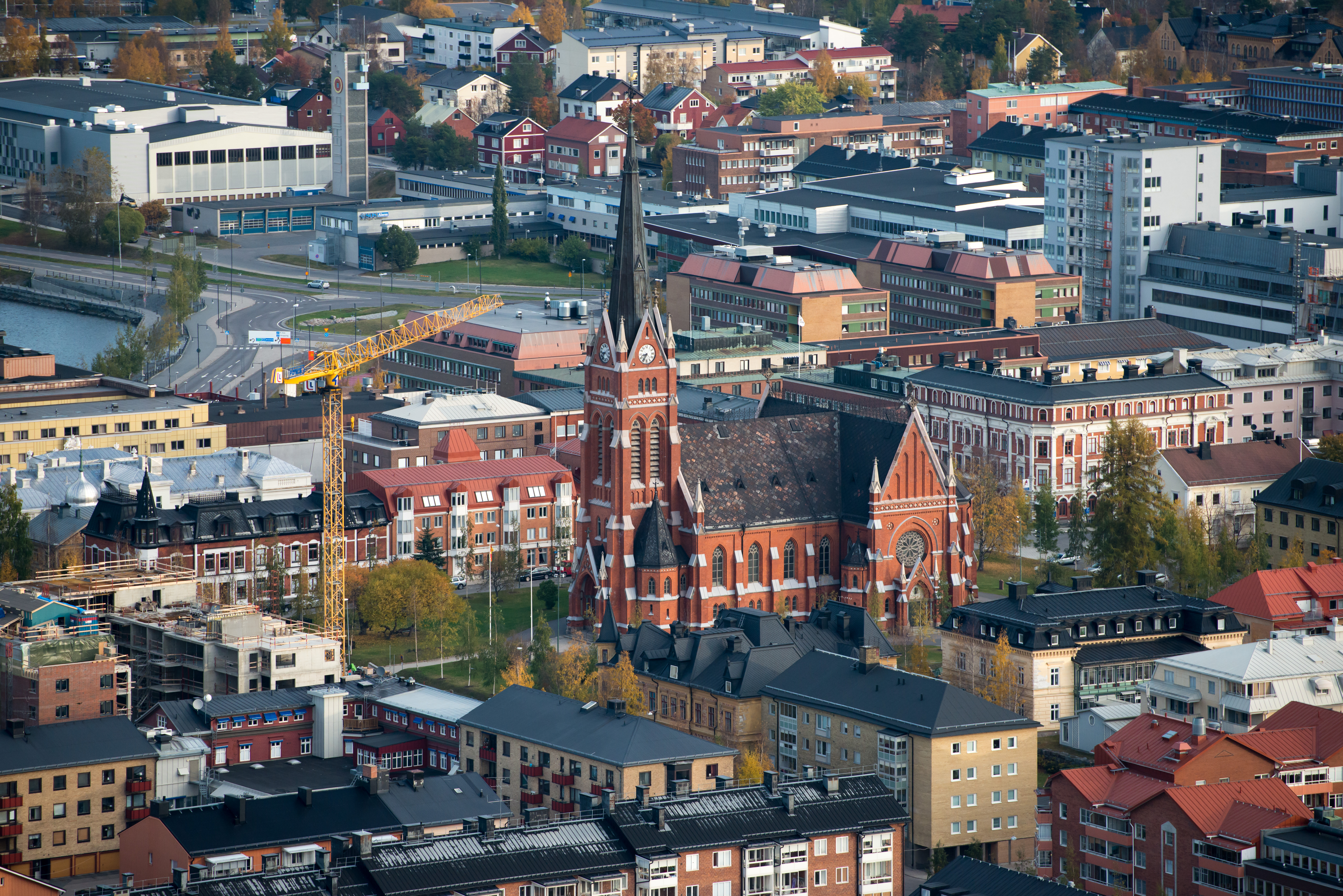 Luleå Cathedral